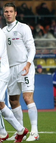 Boštjan Cesar playing for Slovenia in 2009